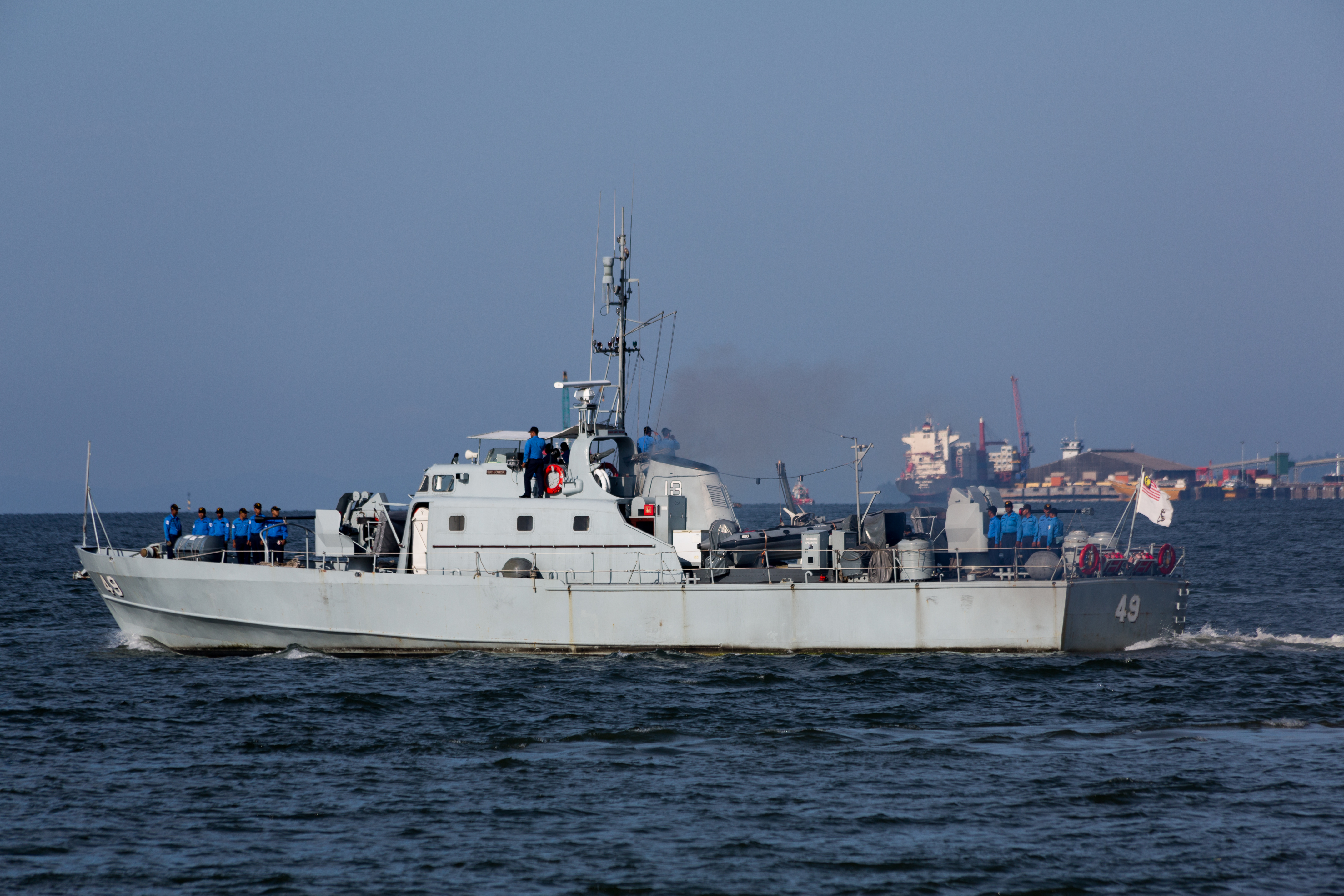 Sandakan, Sabah: The SRI JOHOR, part of the ESS forces, cruising in Sandakan Bay